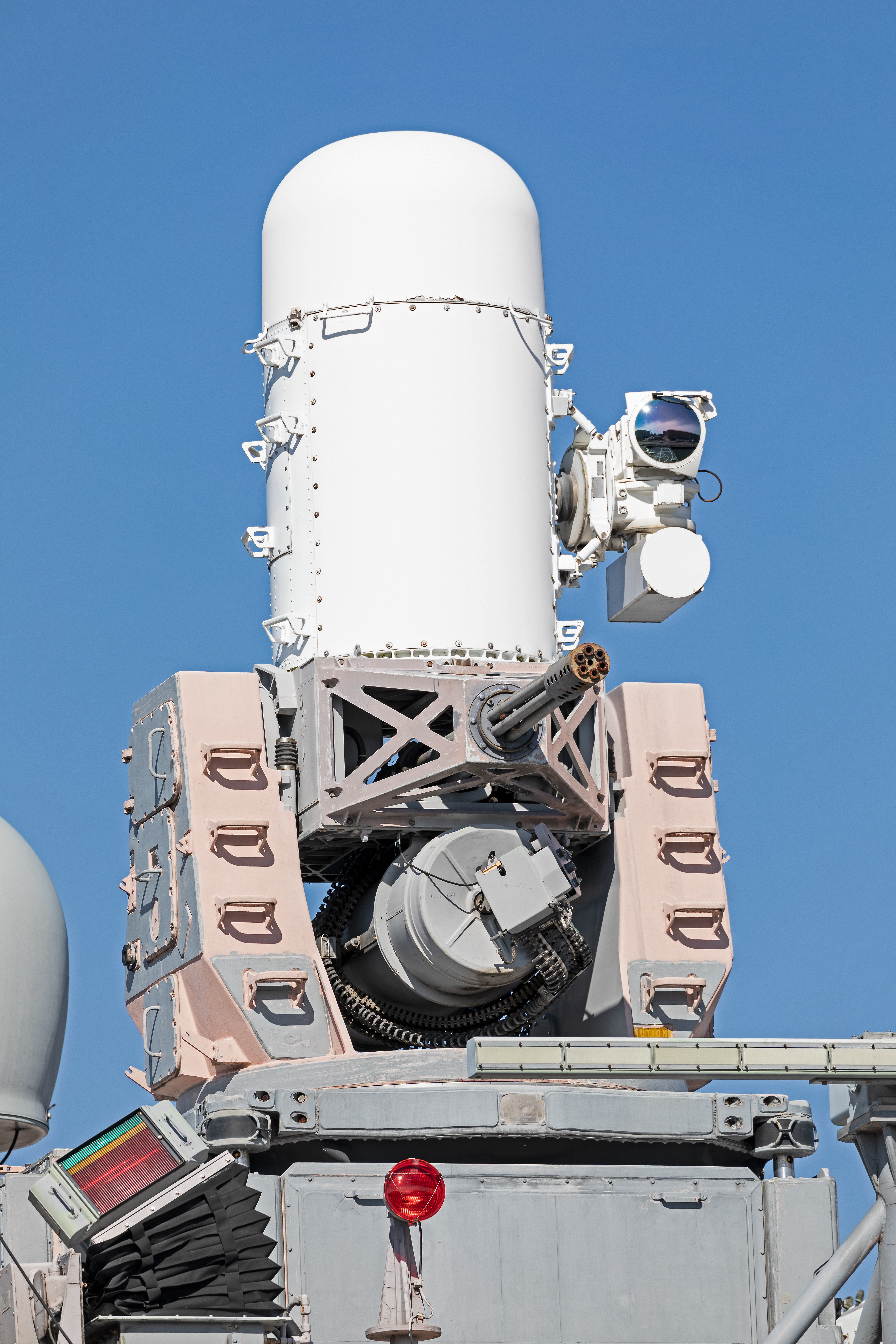 The Phalanx CIWS Block 1B mounted on the Oliver Hazard Perry Class Frigate, USS Elrod (FFG-55) in mothballs at the Philadelphia Navy Yard. Note the FLIR on the right hand side identifying it as a Block 1B Phalanx. If you view full-sized, the reflection in the FLIR shows the flight deck and even the photographer's car.